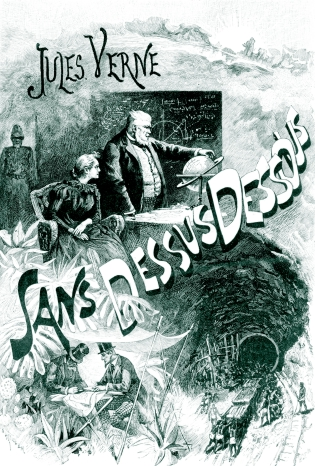 An illustration from Jules Verne's novel "The Purchase of the North Pole" drawn by George Roux.